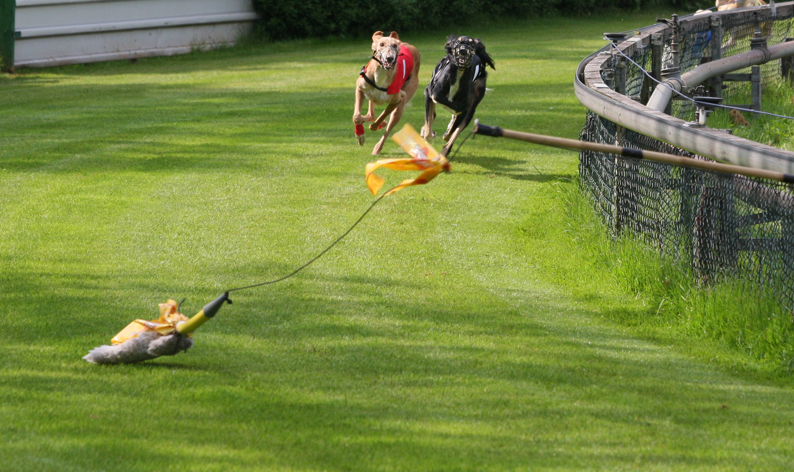 Greyhound racing